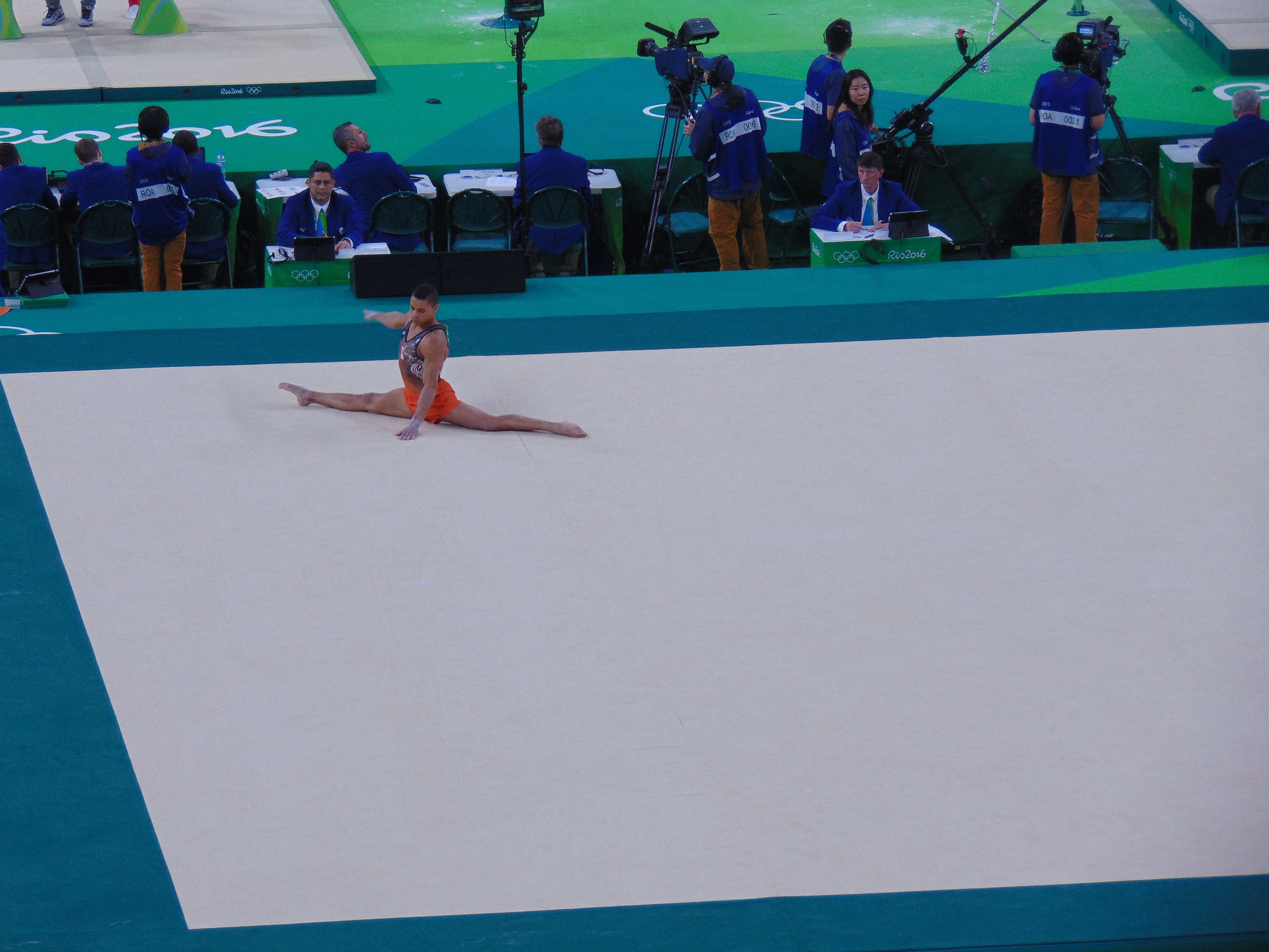 Rio 2016: Artistic gymnastics - men's qualification